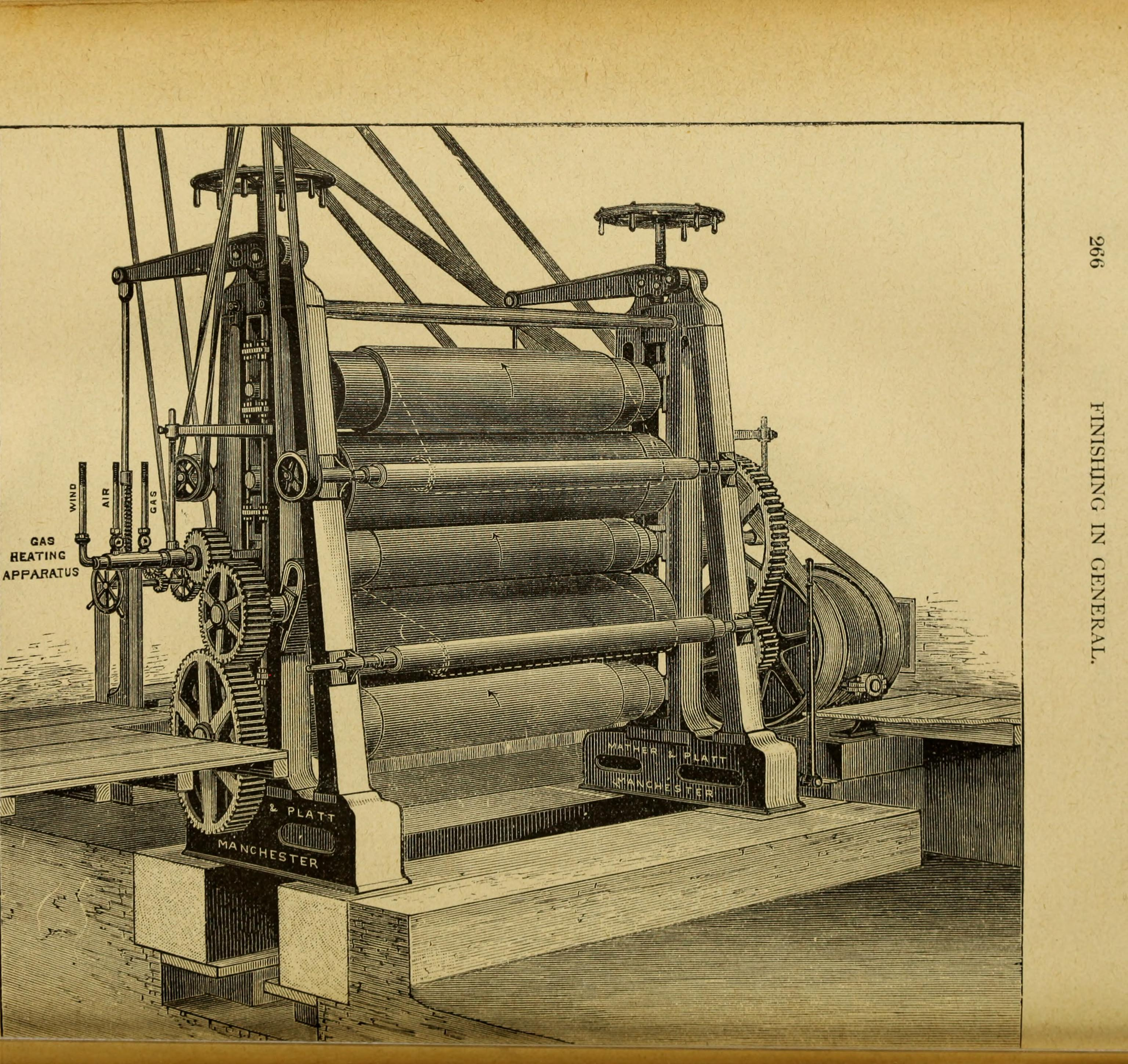 Title: Elementary treatise on the finishing of white, dyed, and printed cotton goods Year: 1889 (1880s) Authors: Depierre, Joseph Subjects: Cotton finishing Publisher: Manchester (Greater Manchester) : George Thomas & Co. Text Appearing Before Image: MACHINES EMPLOYED IN FINISHING. 265 Text Appearing After Image: Fig. 107. Moire and embossing calender. MACHINES EMPLOYED IN FINISHING. 267 Embossed and moire goods are chiefly usedfor linings, bookbinders cloths, patterncard makingfor fans, hat manufacture, and Parisian novelties. RAISING MACHINES, TEAZLES ETC. The operation by which a tissue is rendereddowny and woolly is very ancient. A long timebefore cotton was used this operation was practisedon woollen fabrics; on the mural paintings ofPompei slaves are represented raising, or cardingfabrics by hand. This operation for cotton has only acquireda certain importance during the past few years.Fabrics thus treated no longer belong to theordinary styles, and constitute a speciality. Weshall not enter into the details of all the inventedraising machines, but briefly point out the prin-cipal kinds employed in finishing, without dwellingon the special apparatuses intended for raisingunbleached goods, as this would be digressingfrom our subject; some general remarks howeverseem necessary. Teazling wa